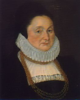 Portrait of Alice Smythe, née Judde.